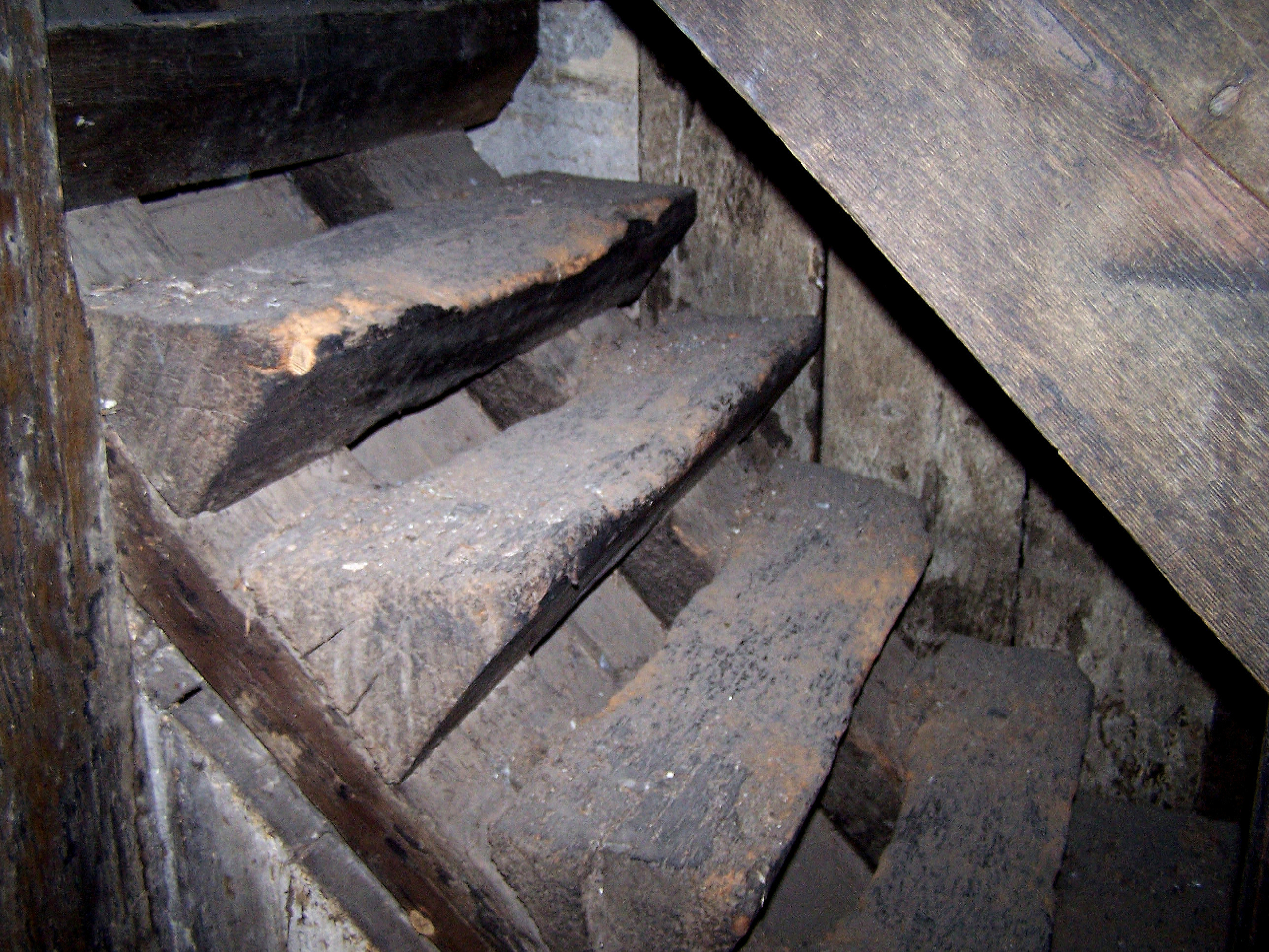 Stairs from 1428 of the Eschenheimer Turm in Frankfurt am Main-Innenstadt, situation of 2009